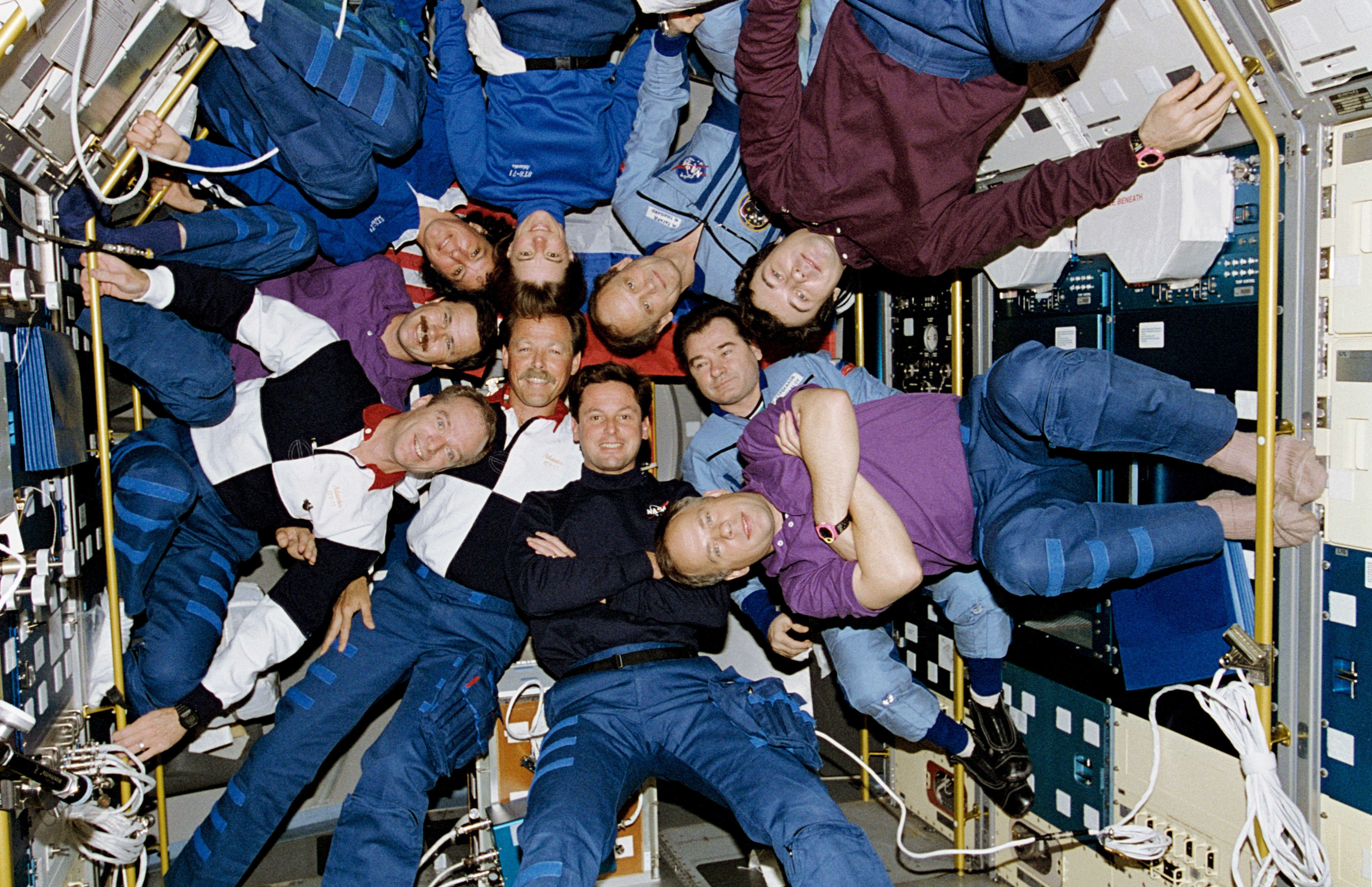 Inside the Spacelab Science Module, the crewmembers of STS-71, Mir- 18, and Mir-19 pose for the traditional inflight picture. An important mission for the human spaceflight program, STS-71 was the 100th U.S. human space launch from Cape Canaveral at Kennedy Space Center. Internationally significant as well, STS-71 was the first U.S. Space Shuttle- Russian Space Station Mir docking and joint on-orbit operation. The Space Shuttle/Mir combination was also the largest space platform ever assembled and put into orbit. (For individual identification, hold picture vertically with the socked feet of Anatoly Y. Solovyev at bottom center). Clockwise from Solovyev are Gregory J. Harbaugh, Robert L. Gibson, Charles J. Precourt, Nikolai M. Budarin, Ellen S. Baker, Bonnie J. Dunbar, Norman E. Thagard, Gennadiy M. Strekalov (angle) and Vladimir N. Dezhurov.